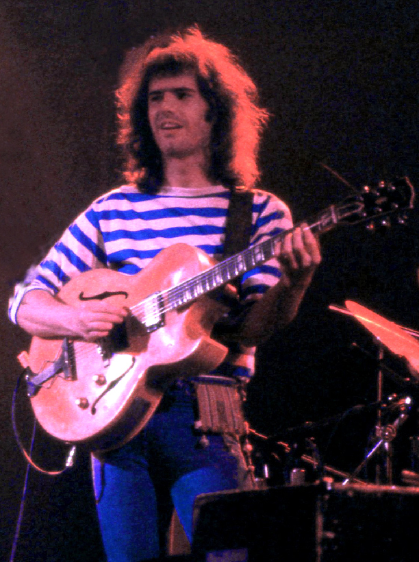 Steve Rodby and Pat Metheny